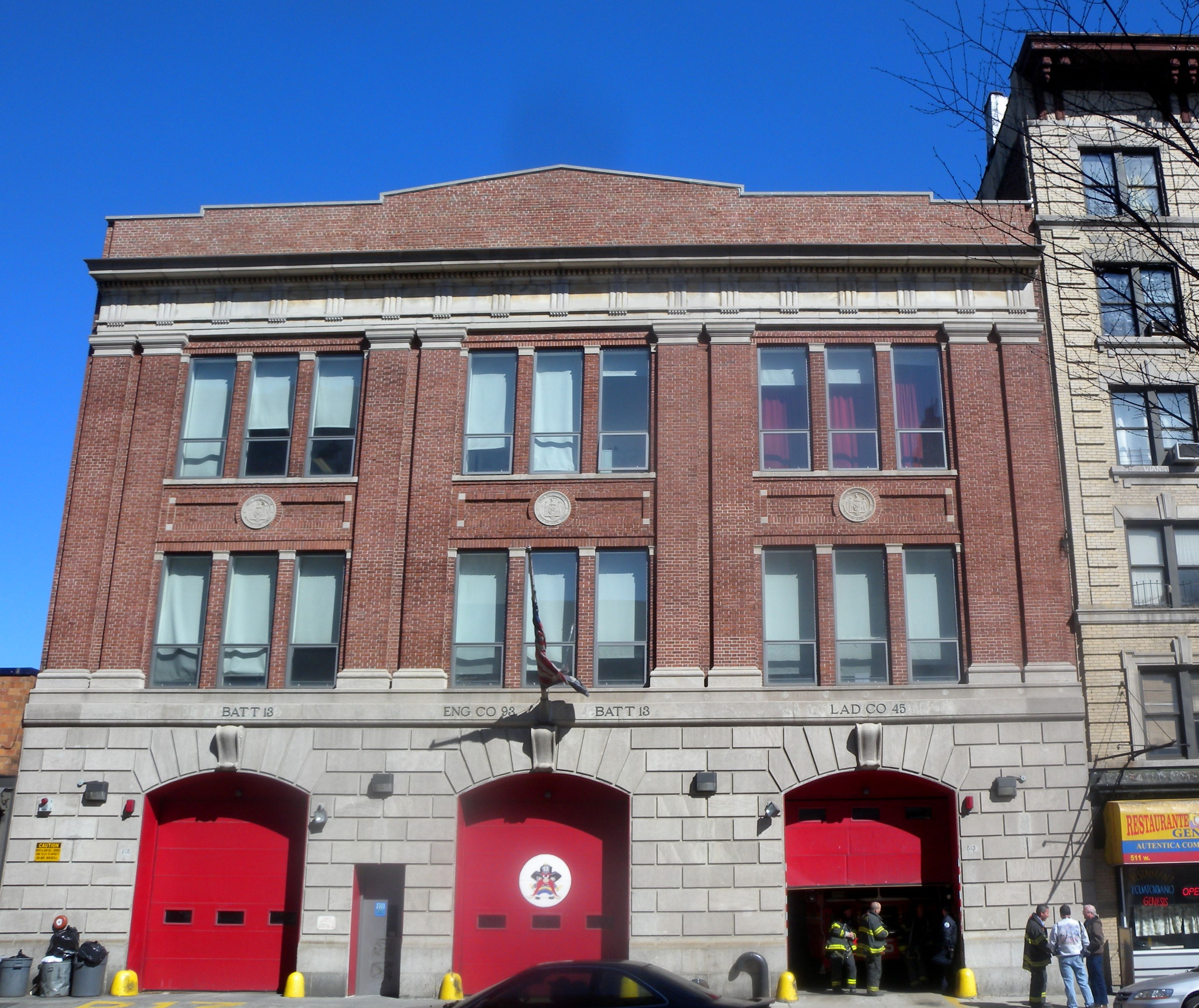 Looking north across 181 at Engine 93 house on a sunny midday.